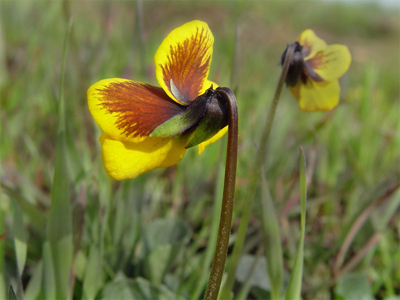 Description Viola pedunculata, California Golden Violet. Date February 28, 2004 Location San Bruno Mountain San Mateo Co., California Photographer Franco Folini